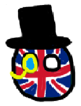 Polandball of the United Kingdom (Great Britain)